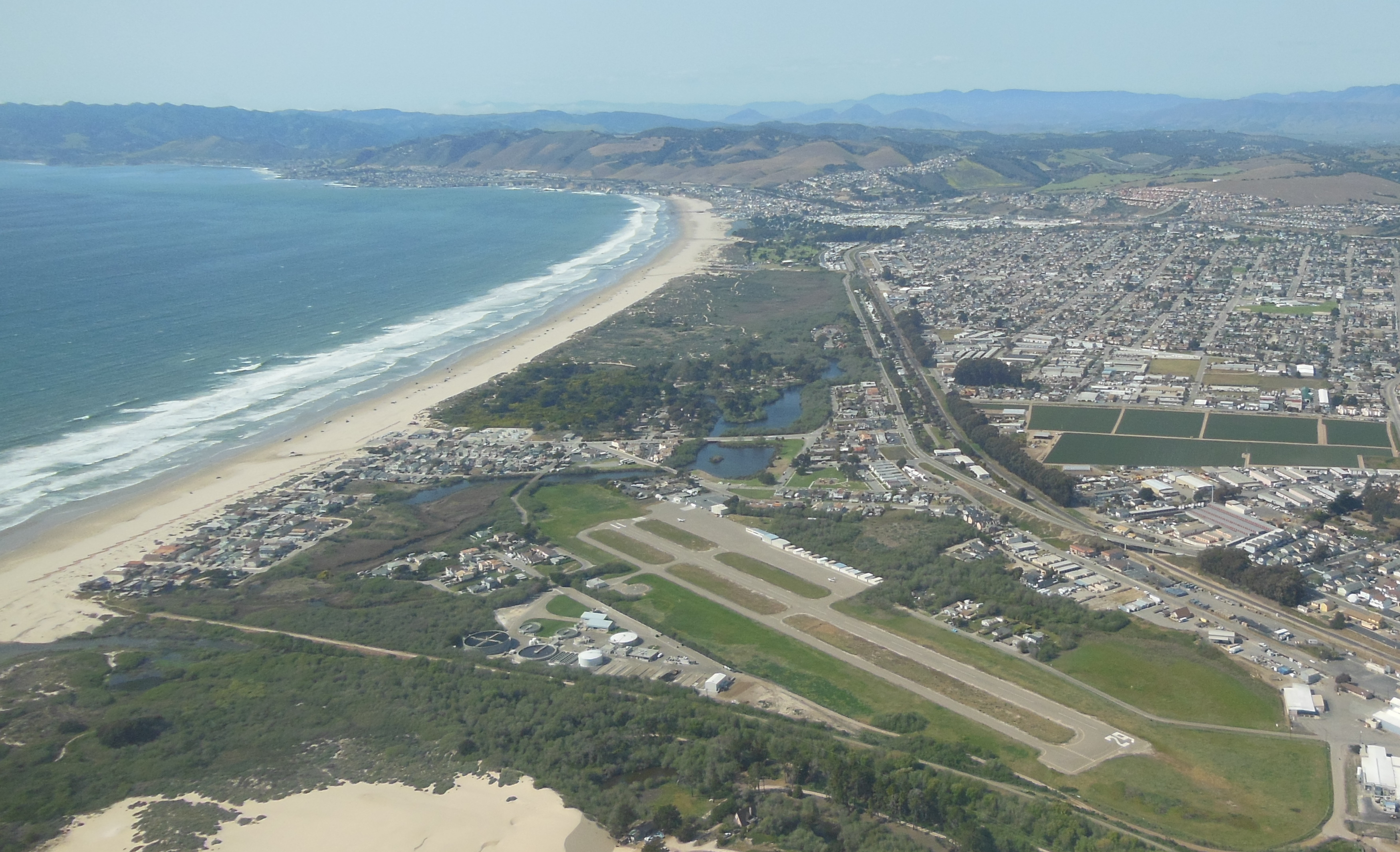 Oceano County Airport, view towards north from point 1nm south of airport, at altitude of 1,100'. Taken with Nikon S9300 on 7 April 2013 at 2:44:02pm local time through the window of a Cessna 182 and cropped using Apple Preview.